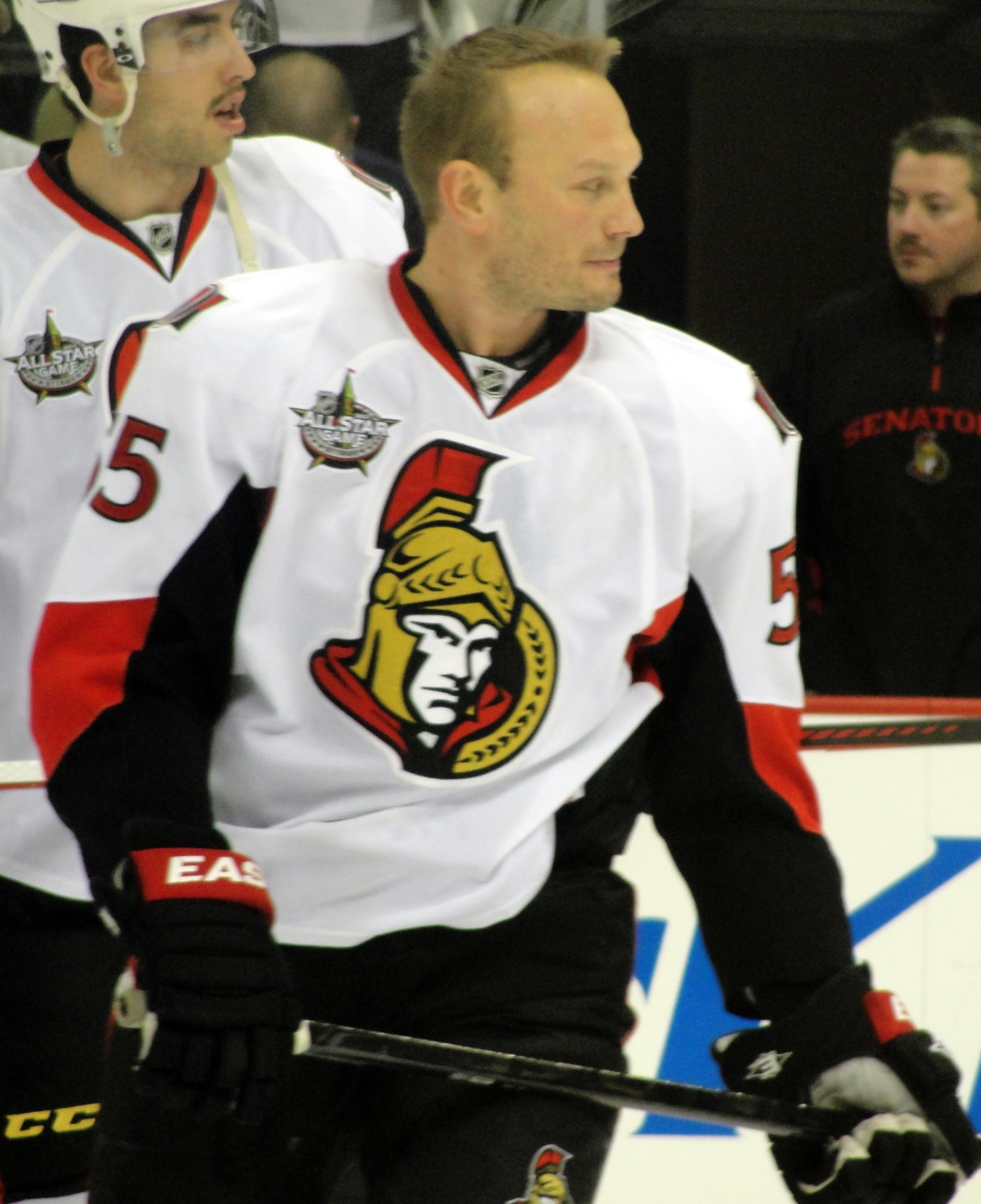 Sergei Gonchar of the Ottawa Senators warms up before a November 25, 2011 game against the Pittsburgh Penguins at Consol Energy Center in Pittsburgh, PA.